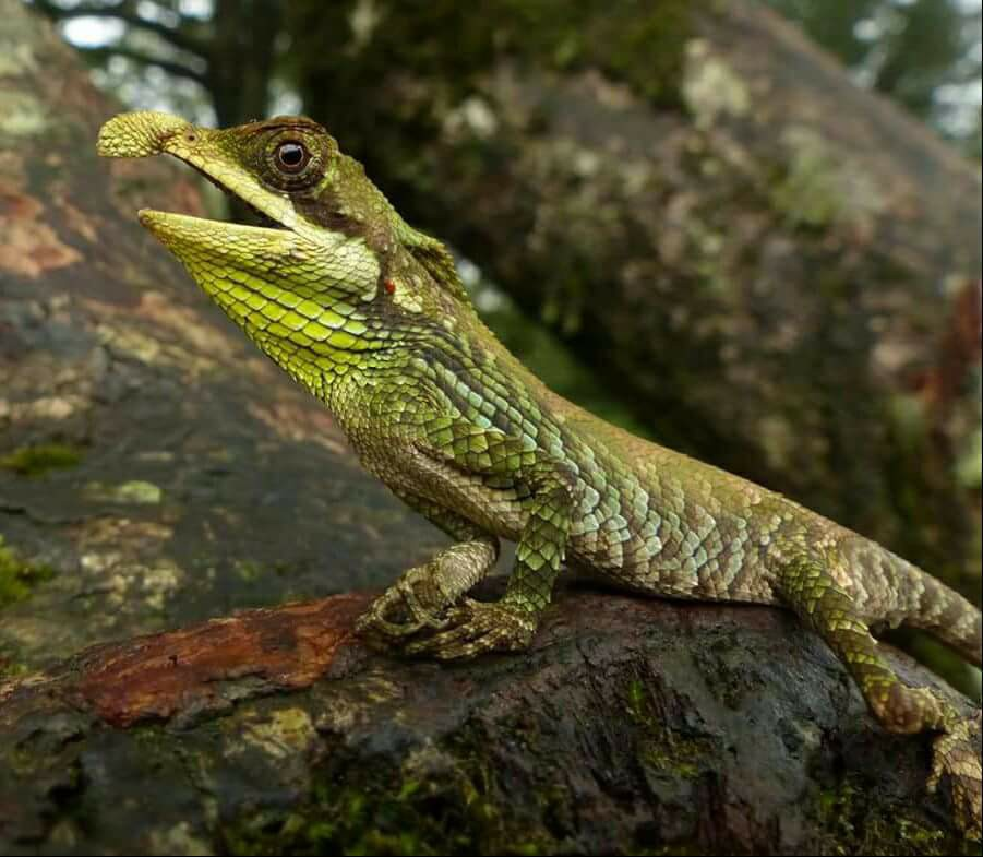 Leaf-Horn Lizard - Ceratophora tennentii - Sri Lanka — at Knuckles Mountain Range